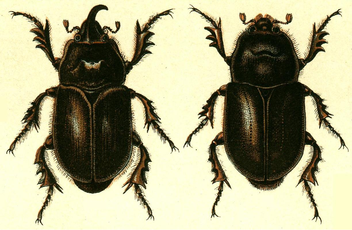 Illustration of monographs Georgiy Jacobson "Beetles Russia and Western Europe". Publisher: Devriena company. The first issue was released in 1905, the last - in 1915. Illustrations were mostly taken from the publication CG Calwers Kaeferbuch. Part of illustrations drawn O. Somina 1. Oryctes nasicornis 2. Oryctes nasicornis 3. Pentodon algerinus 4. Callicnemis latreillei 5. Osmoderma eremita 6. Gnorimus variabilis 7. Gnorimus nobilis 8. Trichius fasciatus 9. Valgus hemipterus 10. Valgus hemipterus 11. Potosia aeruginosa 12. Potosia affinis 13. Potosia marmorata 14. Potosia cuprea 15. Cetonia aurata 16. Potosia sibirica 17. Epicometis hirta 18. Oxythyrea funesta 19. Anomala aurata 20. Anomala vitis 21. Anomala aenea 22. Phyllopertha horticola 23. Anisoplia segetum 24. Anisoplia austriaca 25. Anisoplia agricola